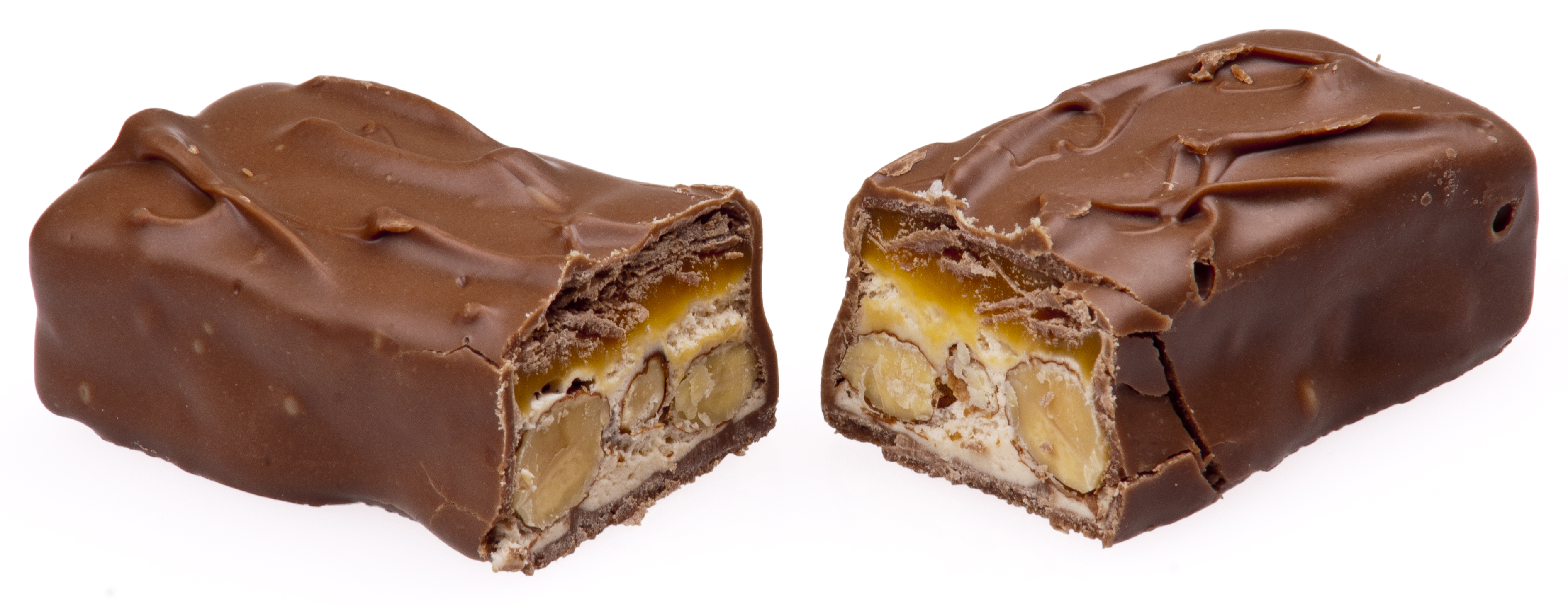 A Mars Almond bar, made by Mars. This is available in the UK, not to be confused with the American Mars bar.